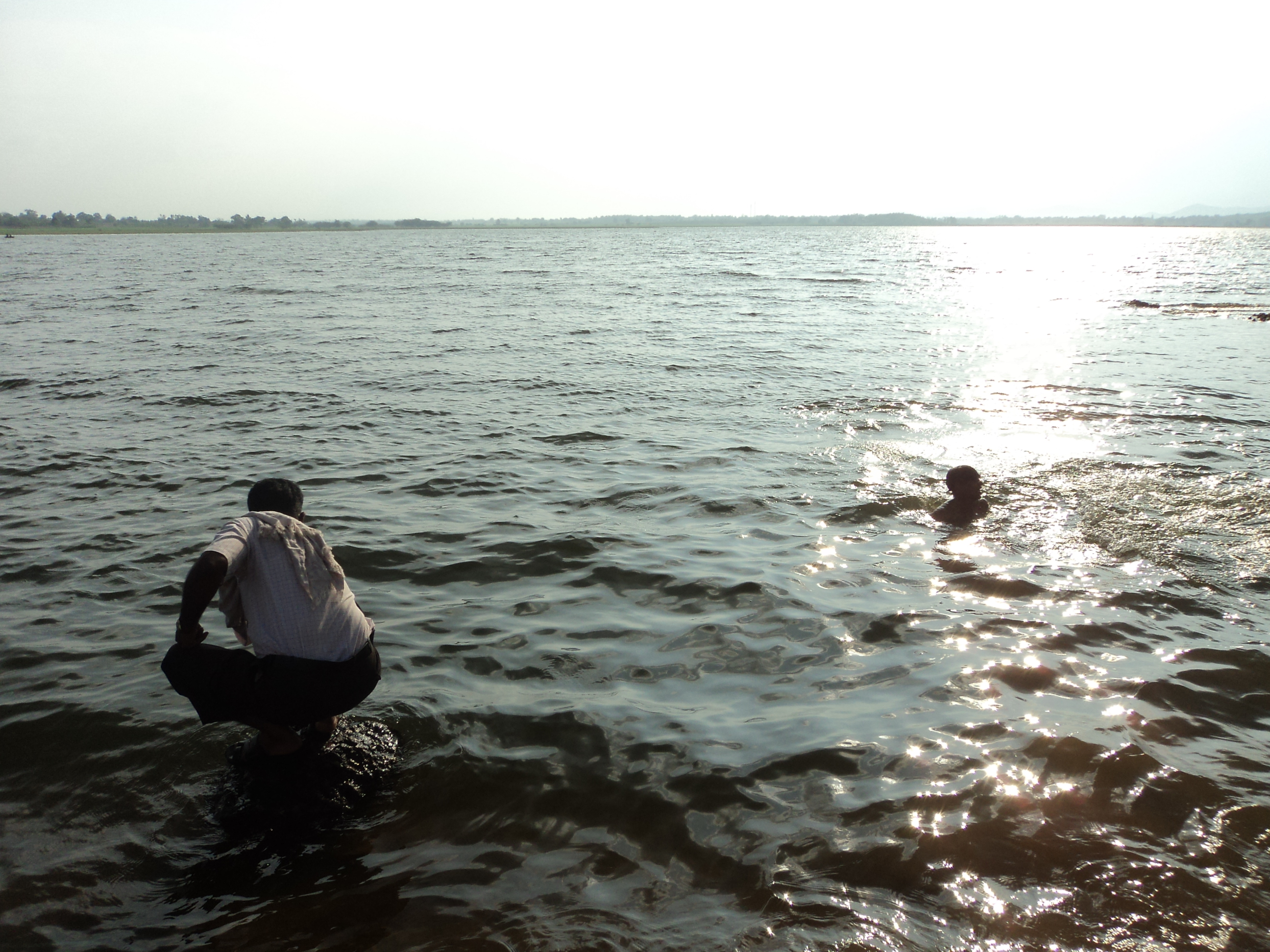 A front view of Madaga Lake.